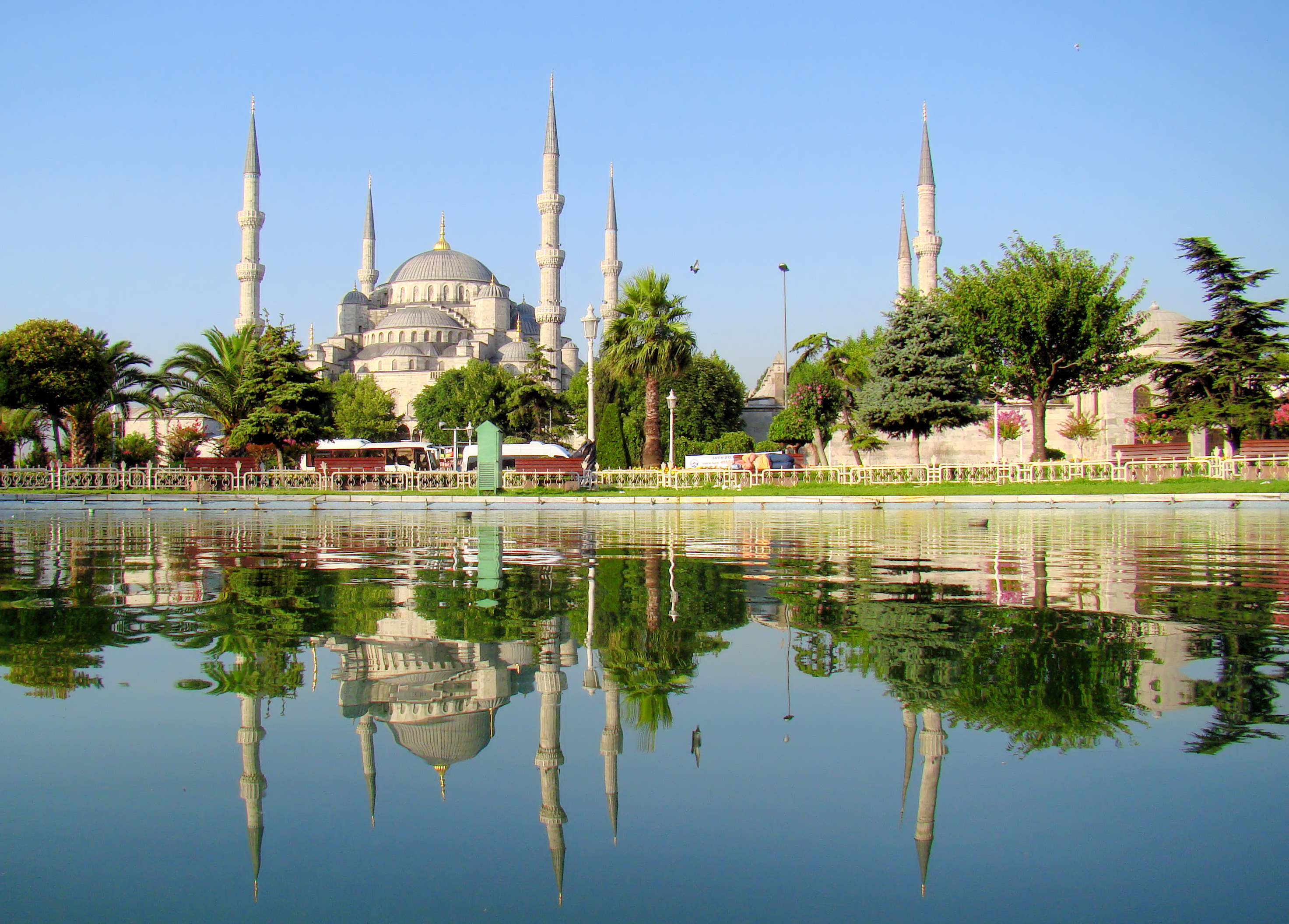 The Blue Mosque photographed from the Sultanahmet Park early in the morning, before the fountain is turned on.